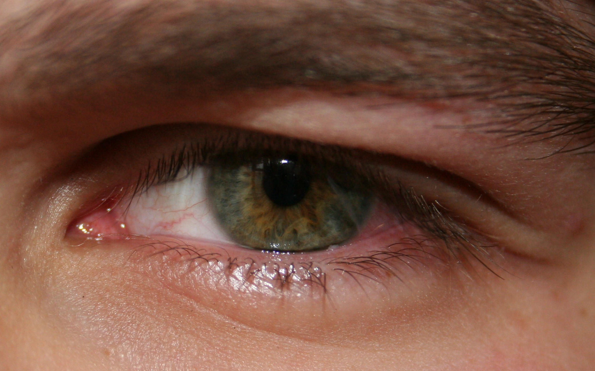 Grey-green human eye